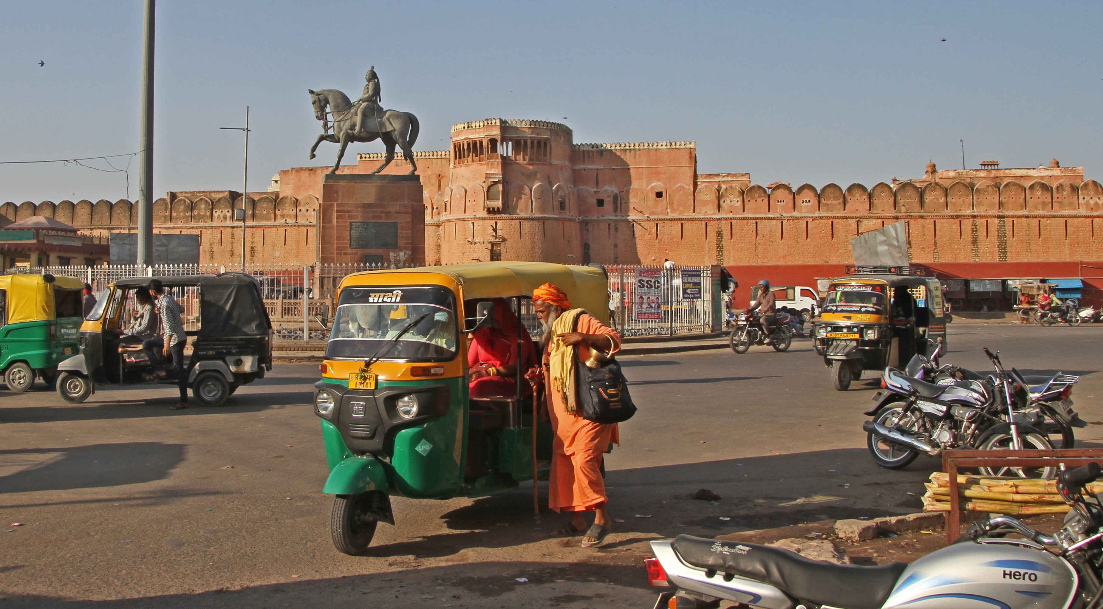 Outside Junagarh Fort